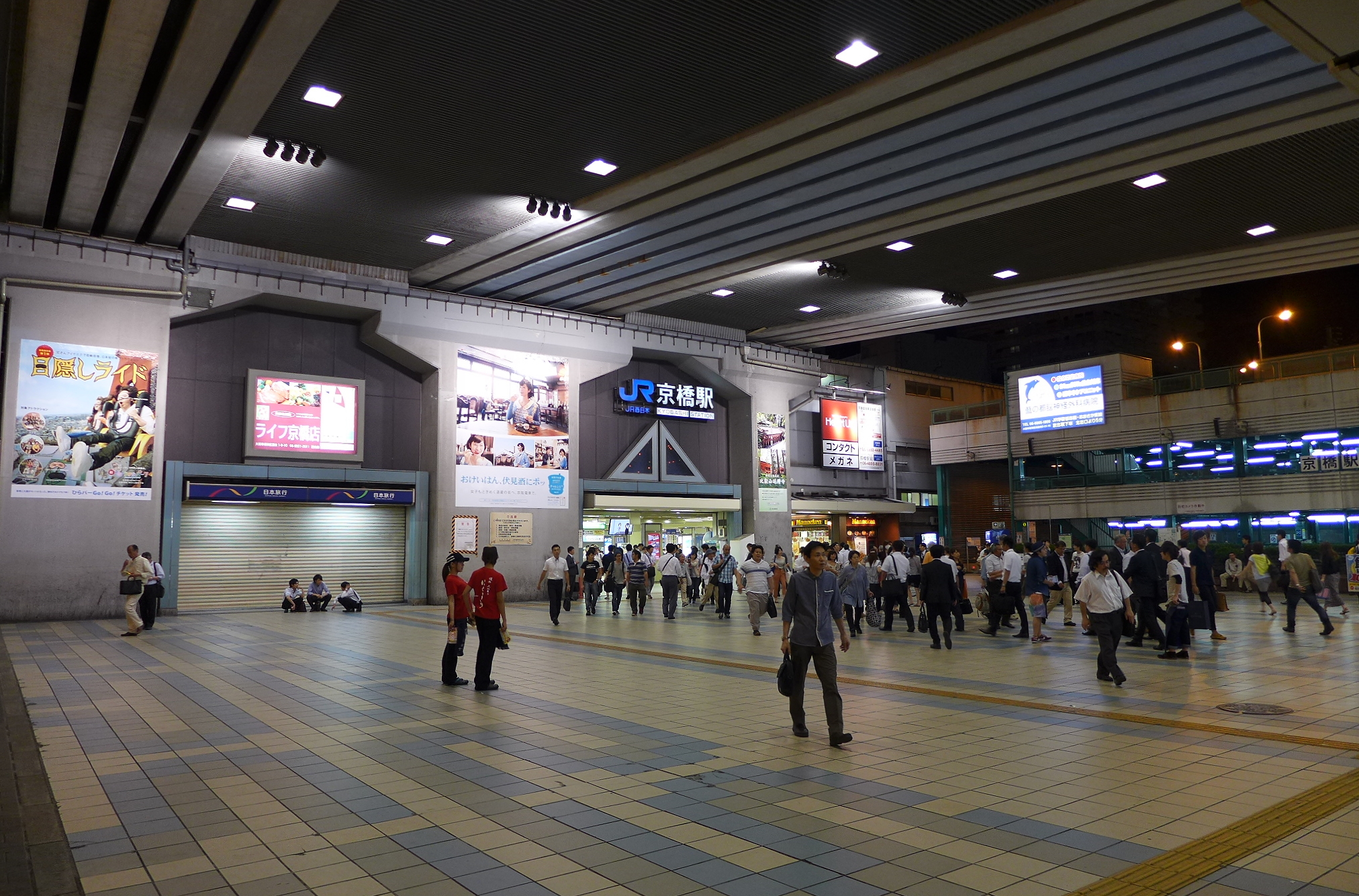 Kyobashi Station Entrance